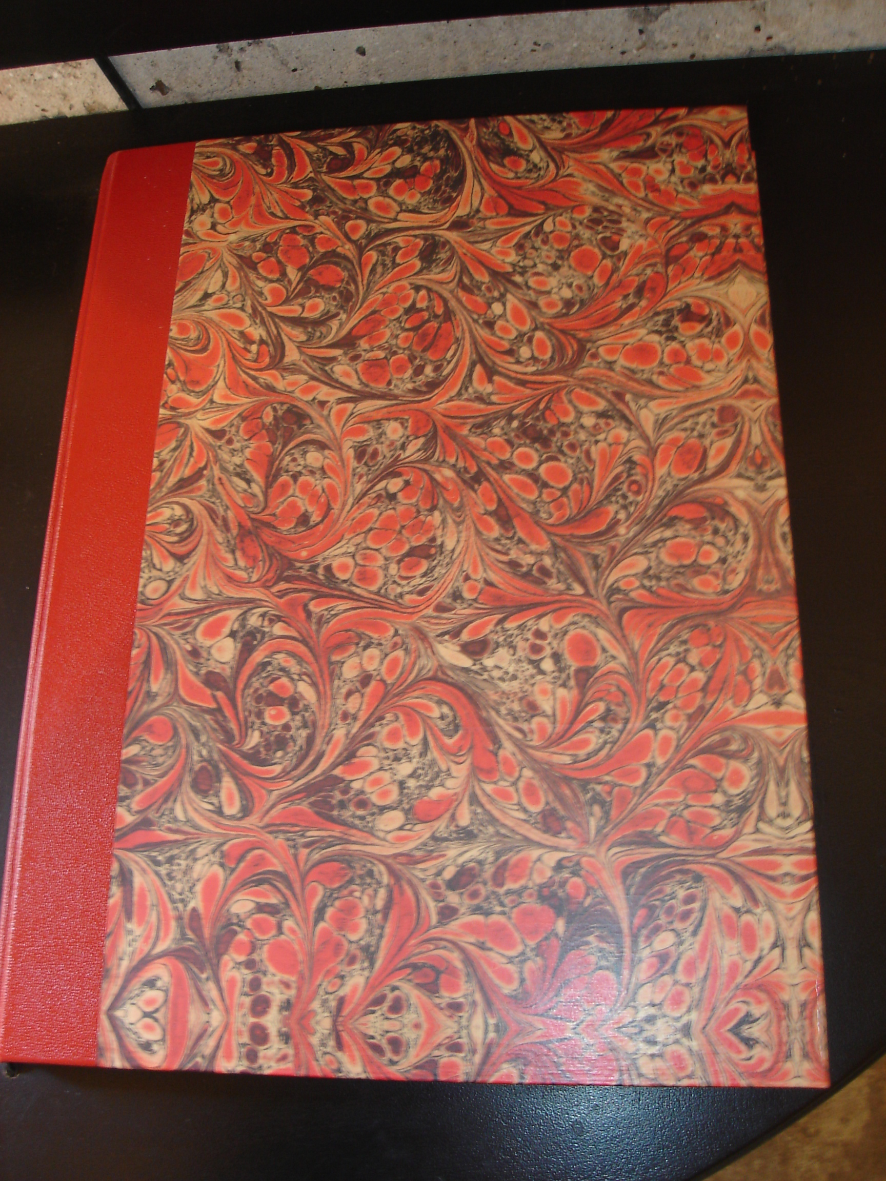 A facsimile of Humphry Repton's Red Books on public display at Sheringham Park, Norfolk